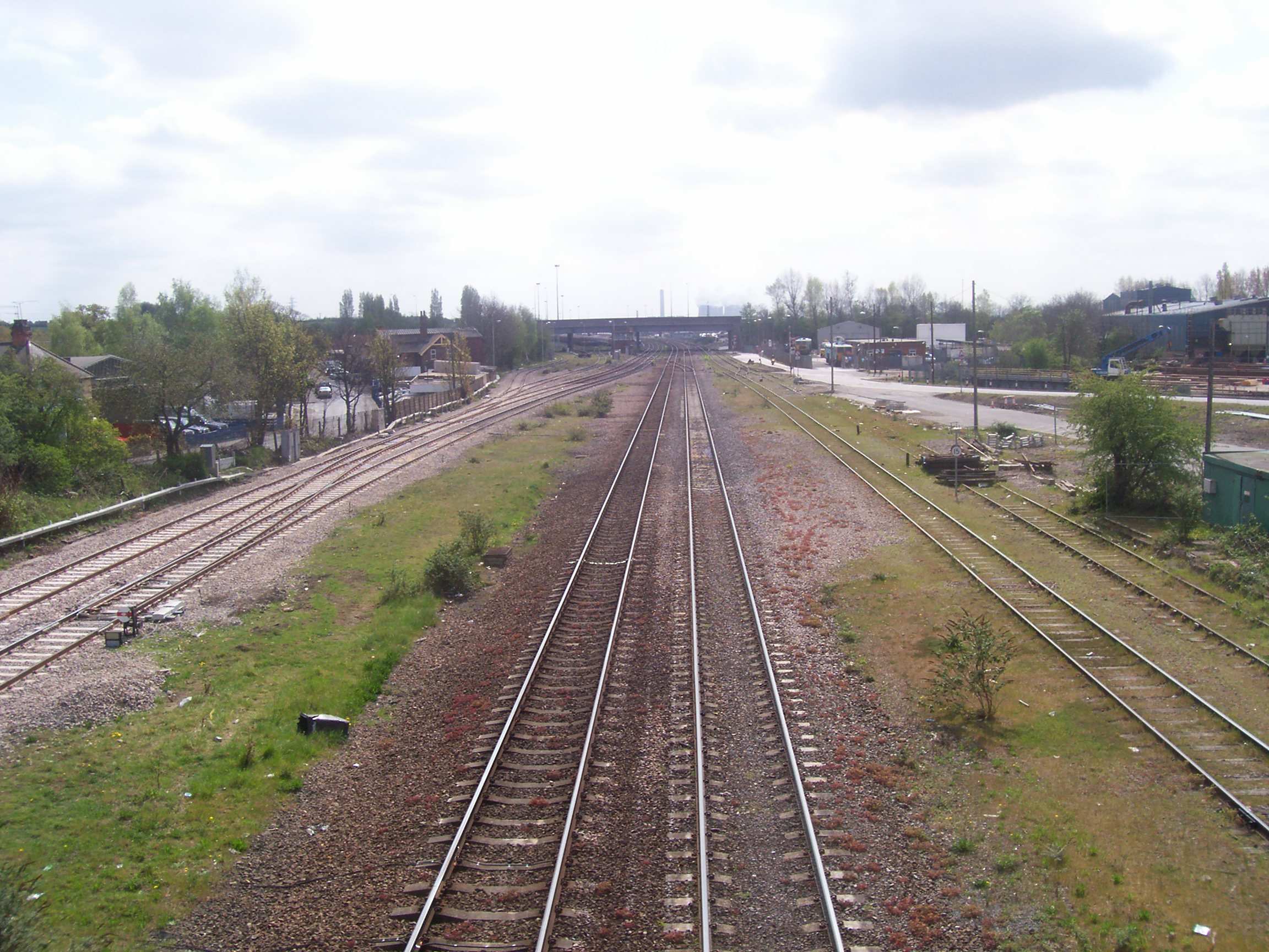 The Erewash Valley Line passing through Stapleford, taken by me in April 2007.